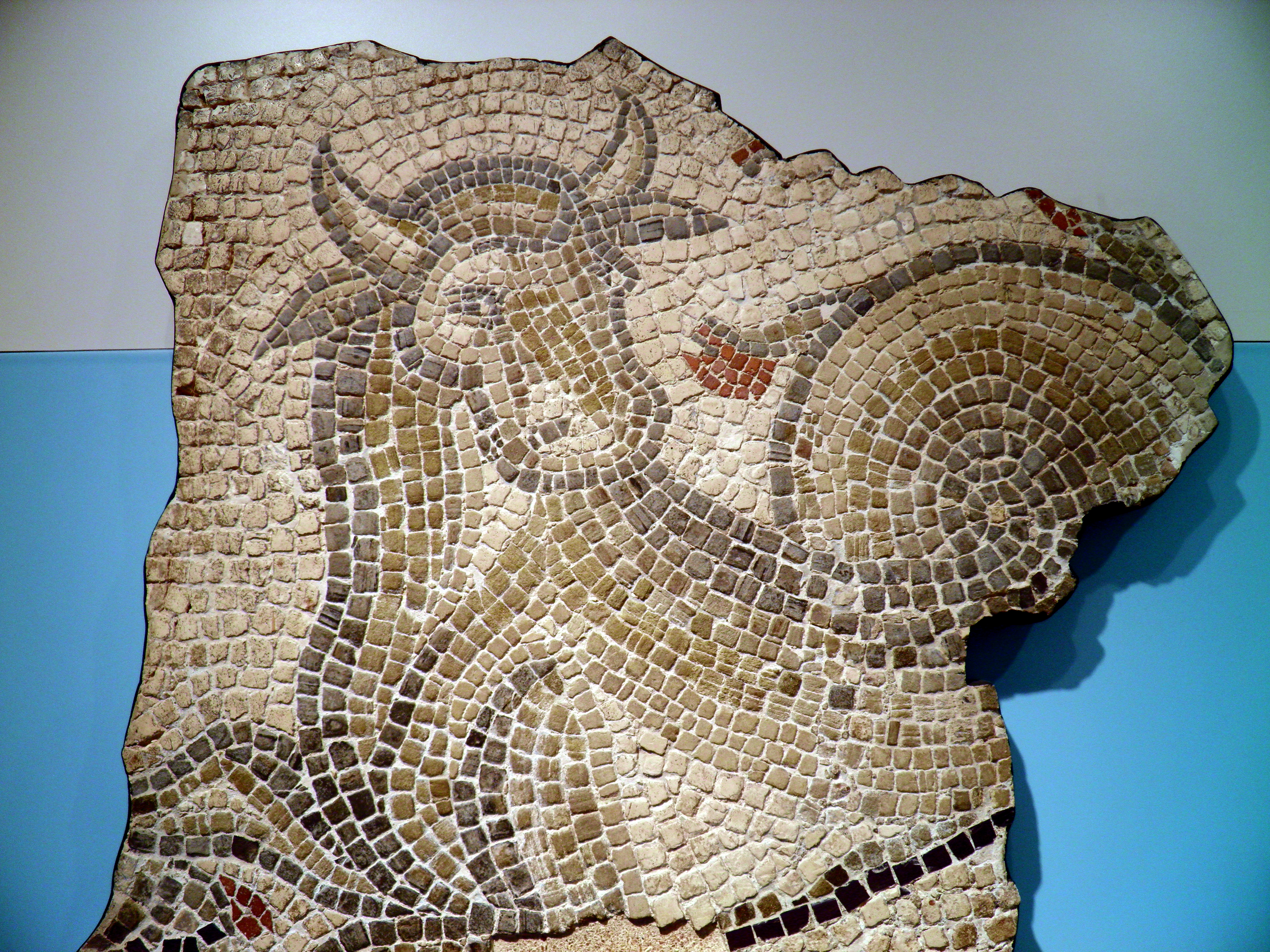 As well as recording what they observed in nature, classical artists invented fantastical beasts and monsters. The Roman poet Ovid describes a "shocking monster born of Mother Earth, a bull, whose back half was a serpent".